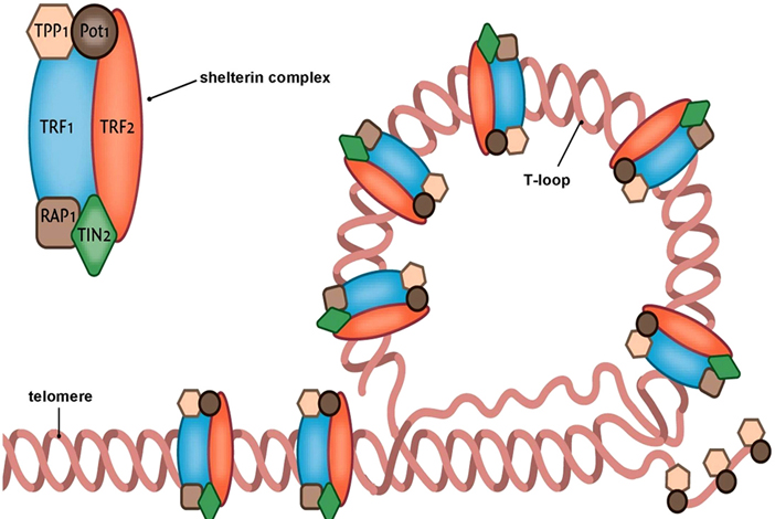 The shelterin-complexes on a telomere